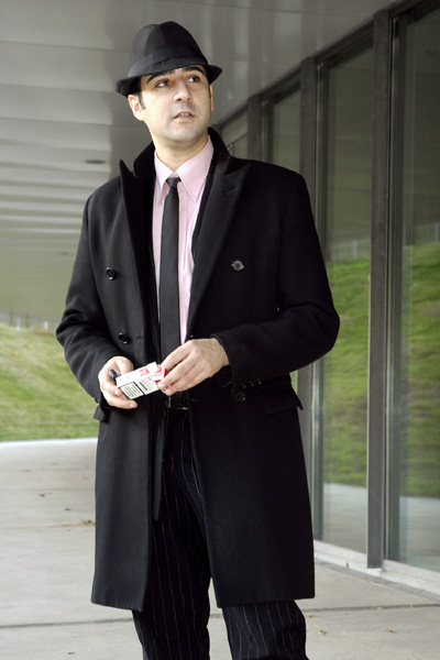 Portrait photograph of Özgür Özata